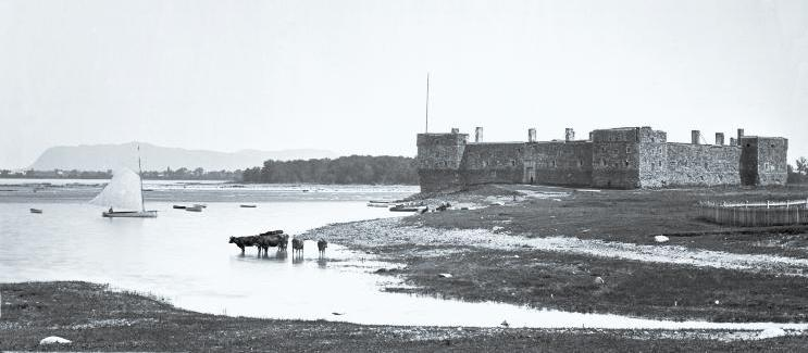 Photograph, Fort Chambly, near Montreal, QC, 1863, William Notman (1826-1891), Silver salts on glass - Wet collodion process - 20 x 25 cm